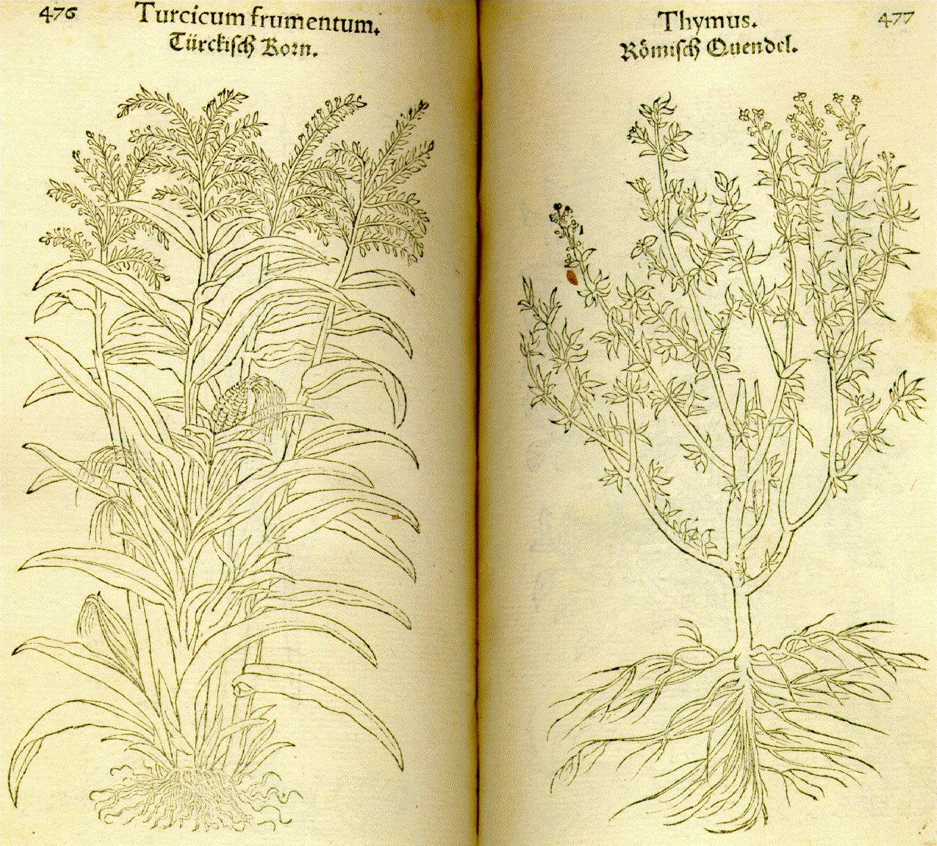 Sketch of Turcicum frumentum (Zea mays) and Thymus species. Plate from Fuchs Botanical (1545), or, in Latin: Primi de stirpivm historia commentariorvm tomi uiuæ imagines, in exiguam angustioremq[ue] formam contractæ, ac quam fieri potest artificiosissime expressæ...Basileæ by Leonhart Fuchs, 1501-1566.